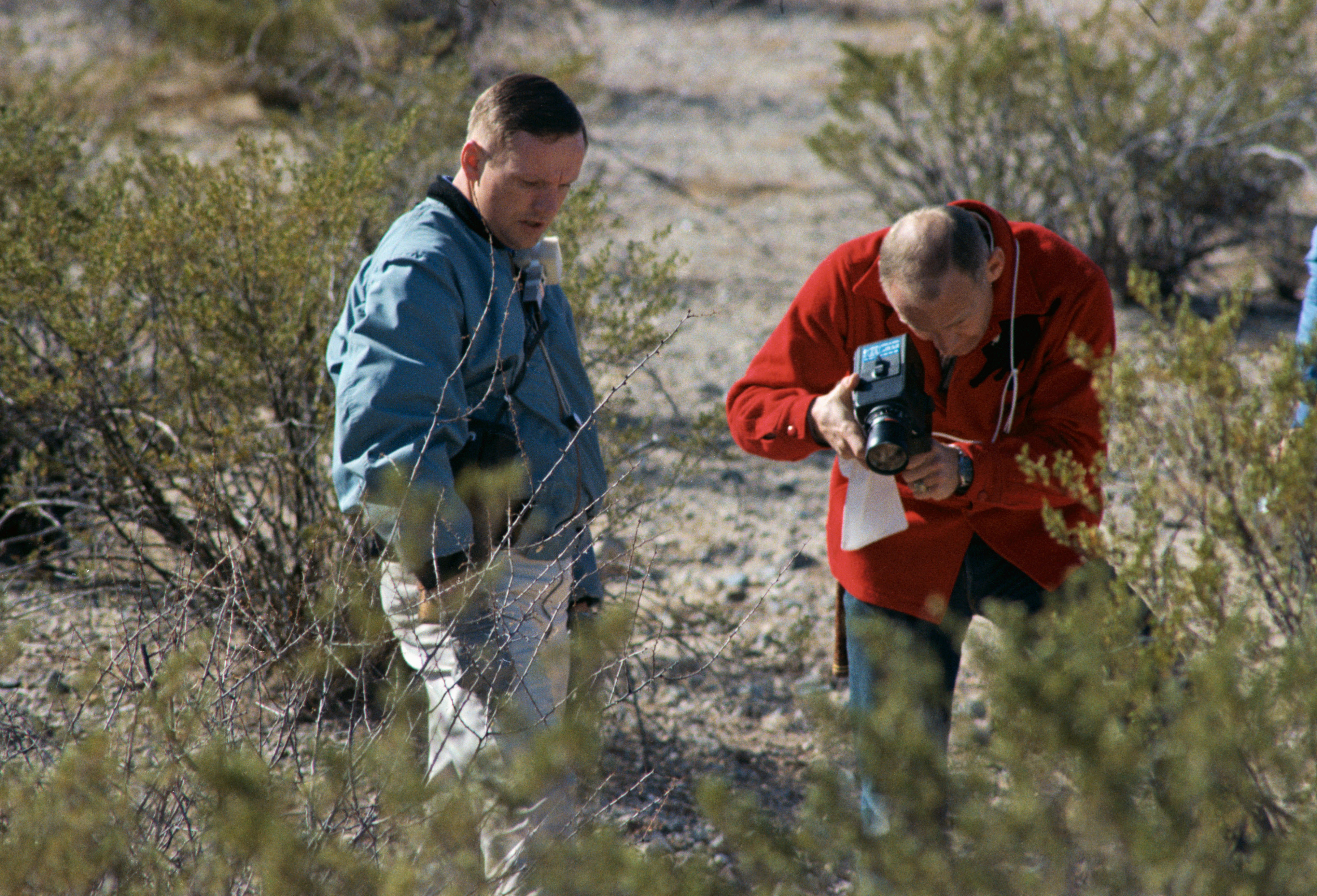 Neil (left) watches Buzz take a documentary photo of a sample. 24 February 1969.